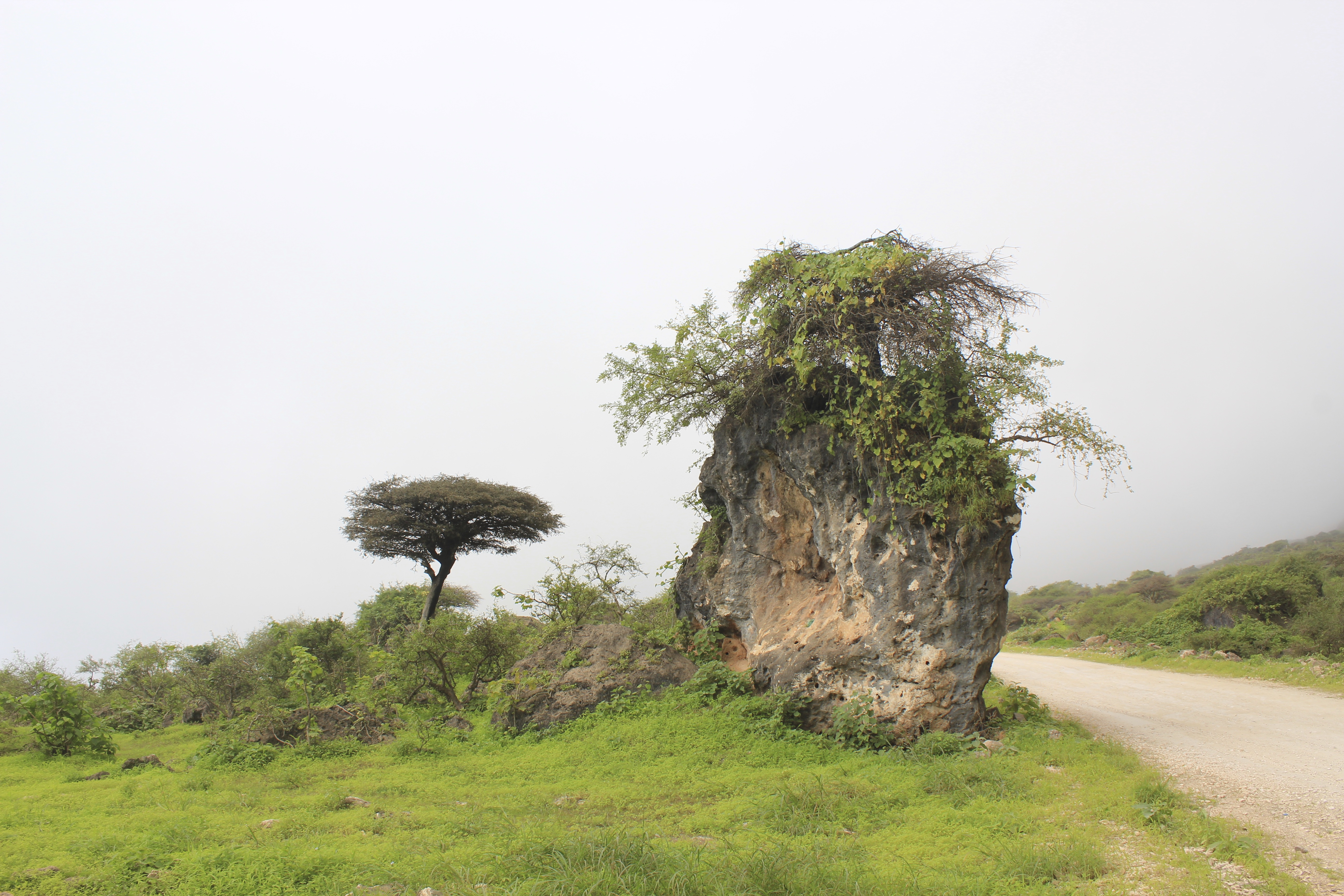 Dhofar, Oman.